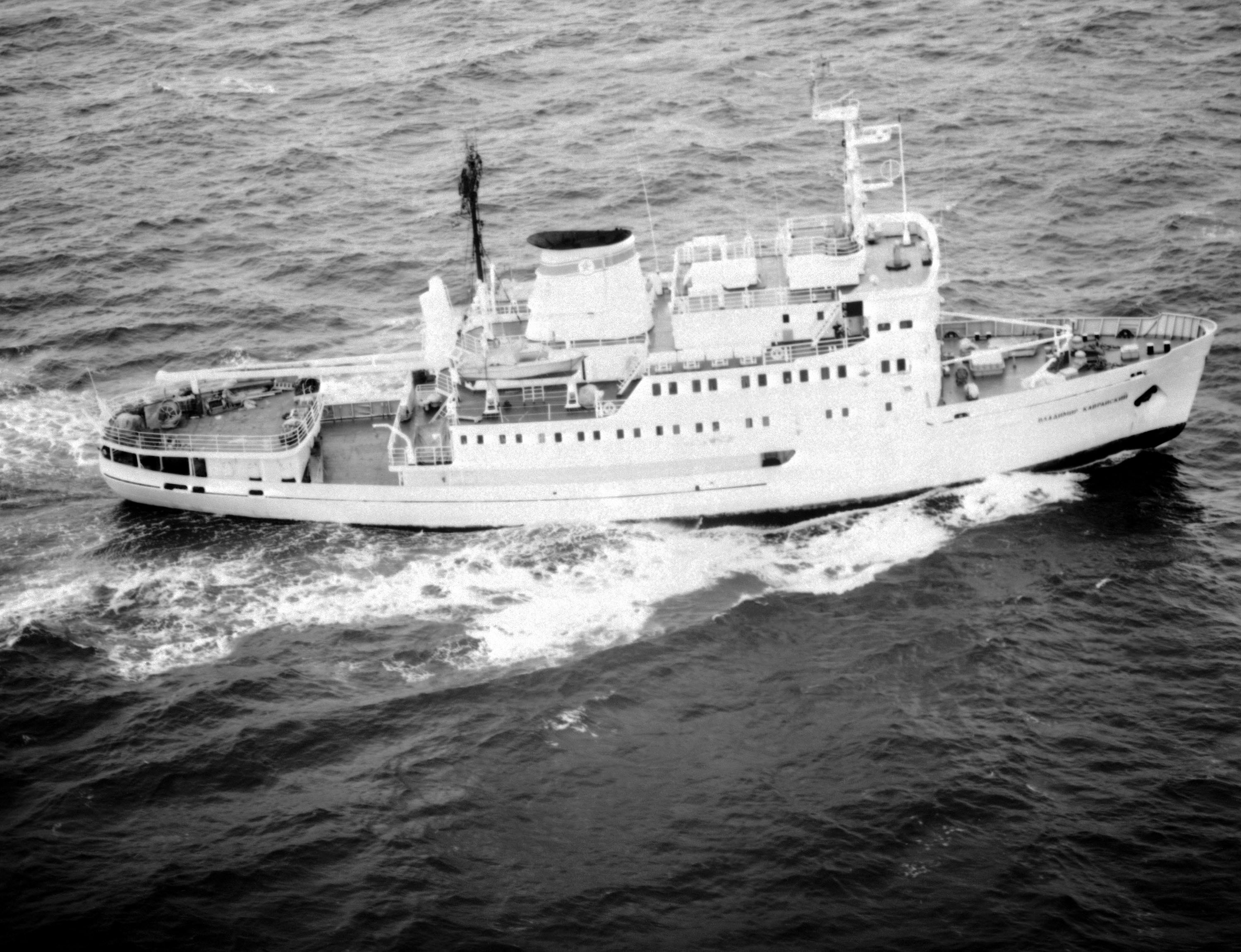 A starboard beam view of the Russian research ship and icebreaker Vladimir Kavraysky underway.